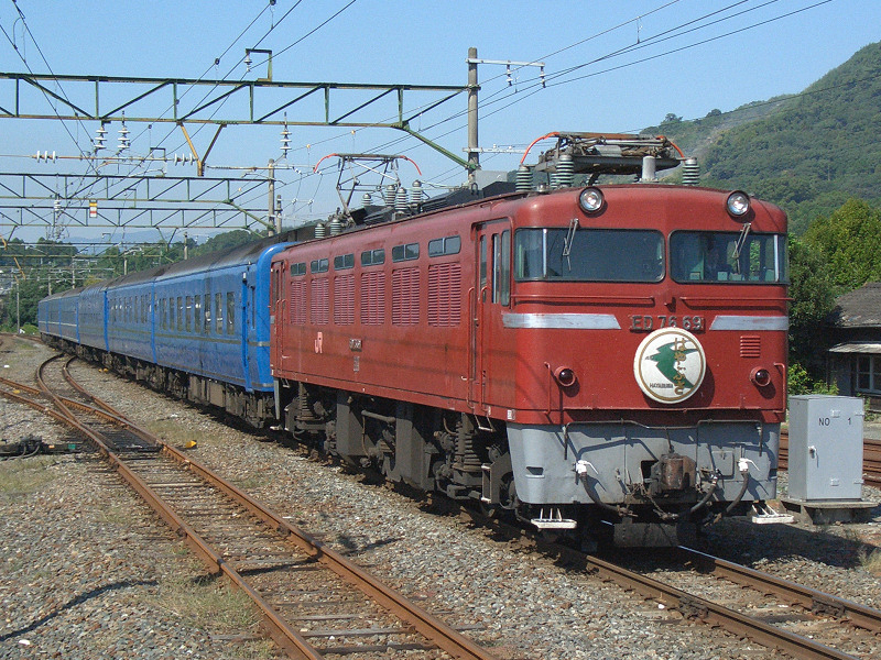 Limited Express "Hayabusa", Kyushu raiway company.